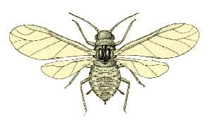 Carrot aphid. Cavariella_aegopodii (Hemiptera: Aphididae)